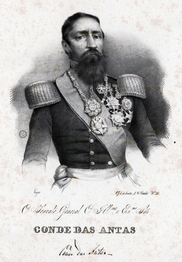 Francisco Xavier da Silva Pereira (1793—1852), conde das Antas, a Portuguese general and politician (engraving by Jules Peyre, circa 1840).